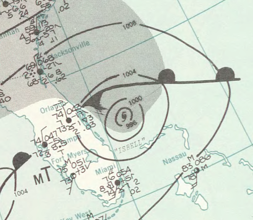 Surface weather analysis of Hurricane Isbell of the 1964 Atlantic hurricane season just off the Florida coast on October 15, 1964.